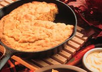 Cornbread